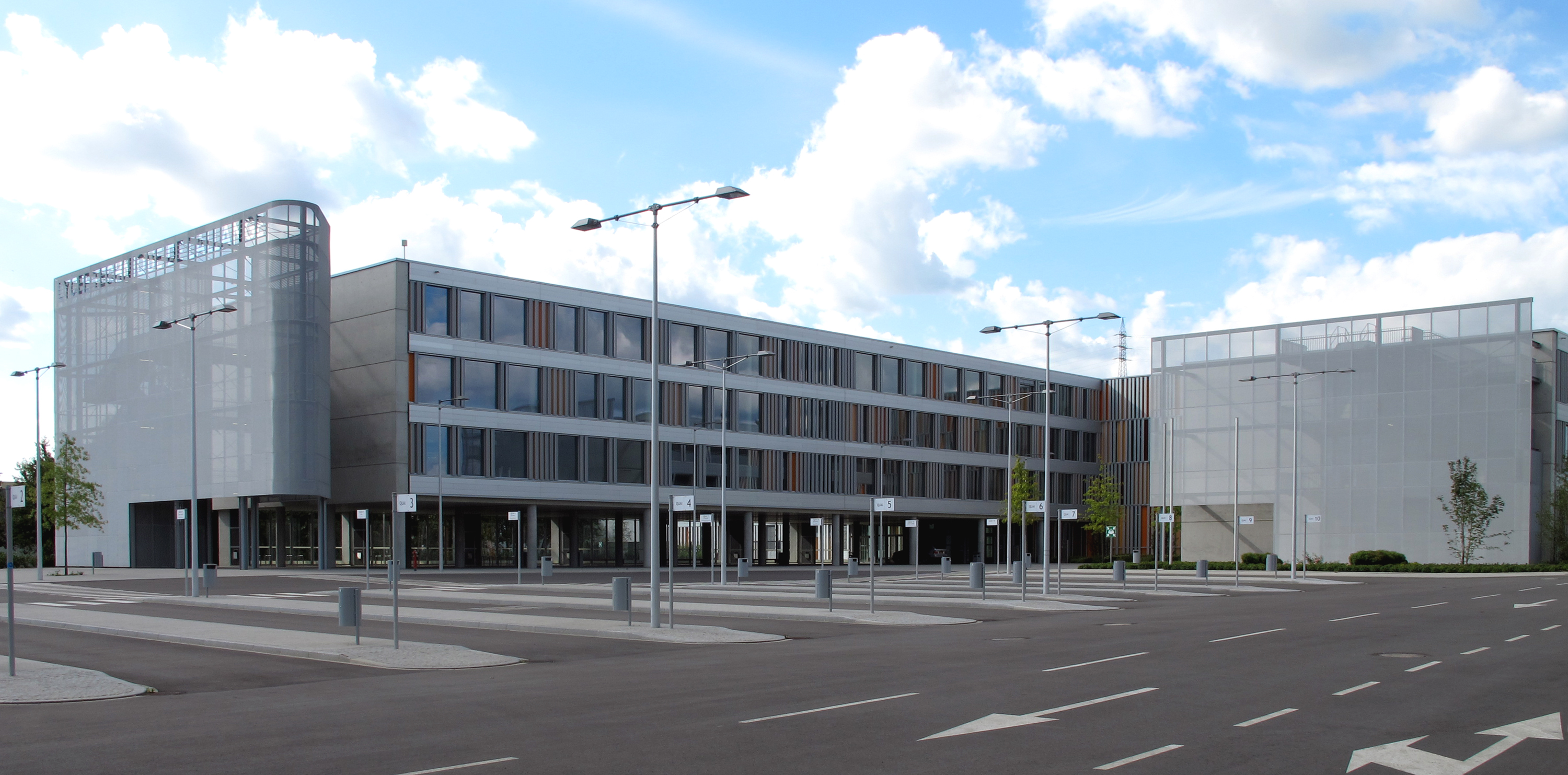 Technical secondary school of Lallange, Esch-Alzette, Luxembourg